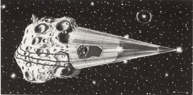 tethered asteroid